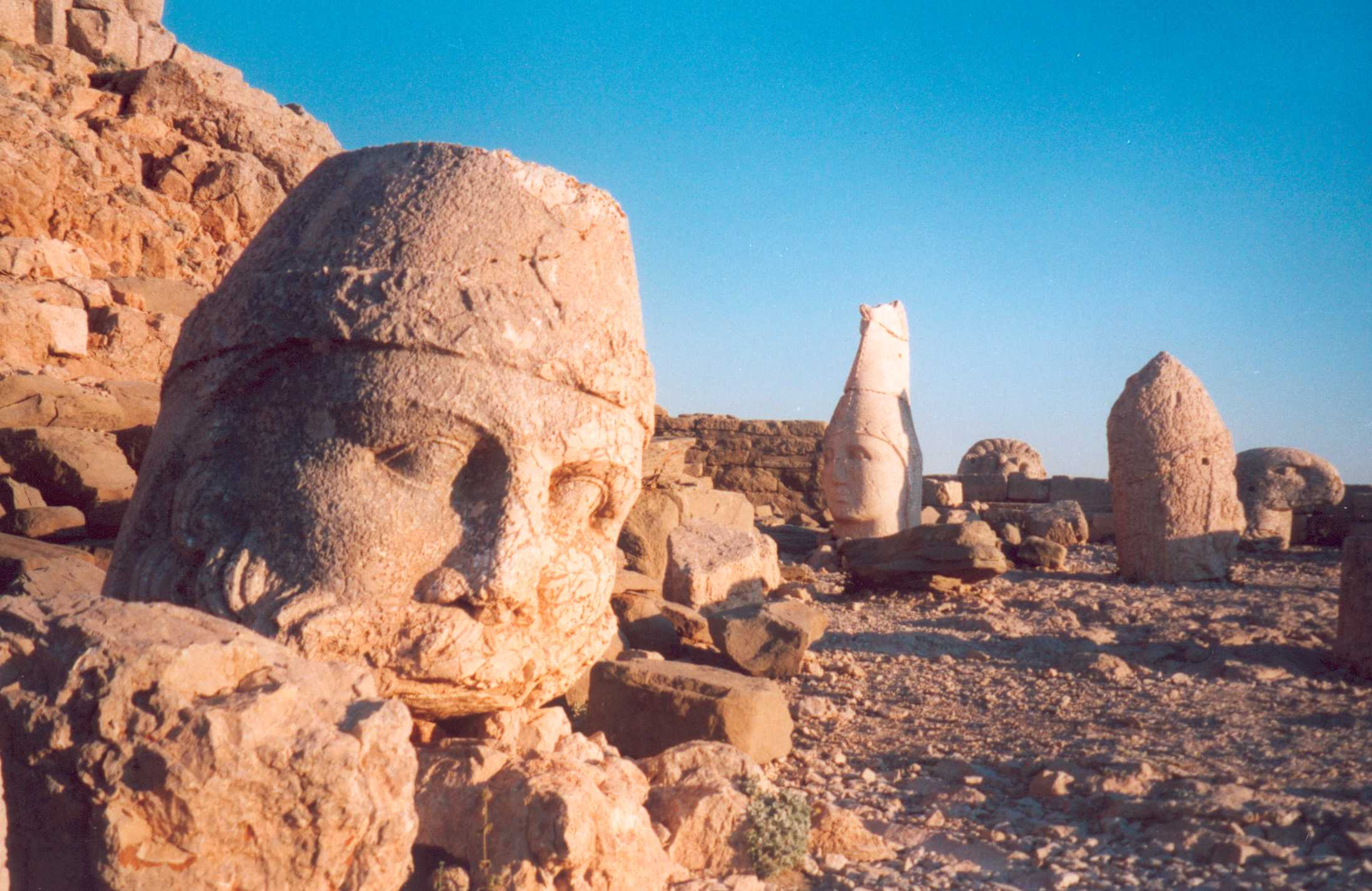 Head of Zeus-Oromasdes statue at the eastern terrace of Mt. Nemrud (Turkey)